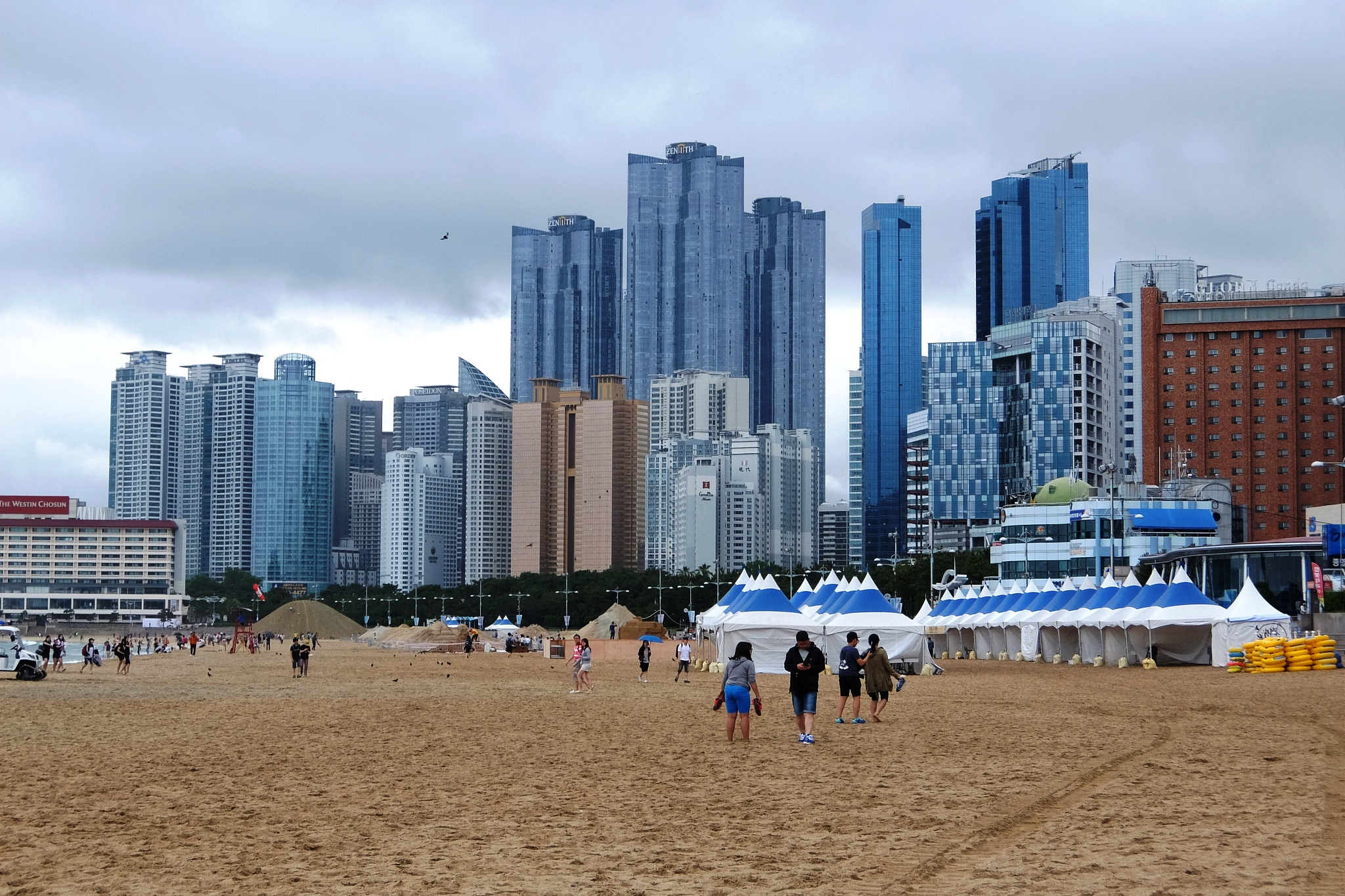 Panorama of Haeundae and Marine City on a Cloudy Day. Busan, South Korea. Photograph from Flickr; author Jinho Jung; license of cc by sa 2.0.